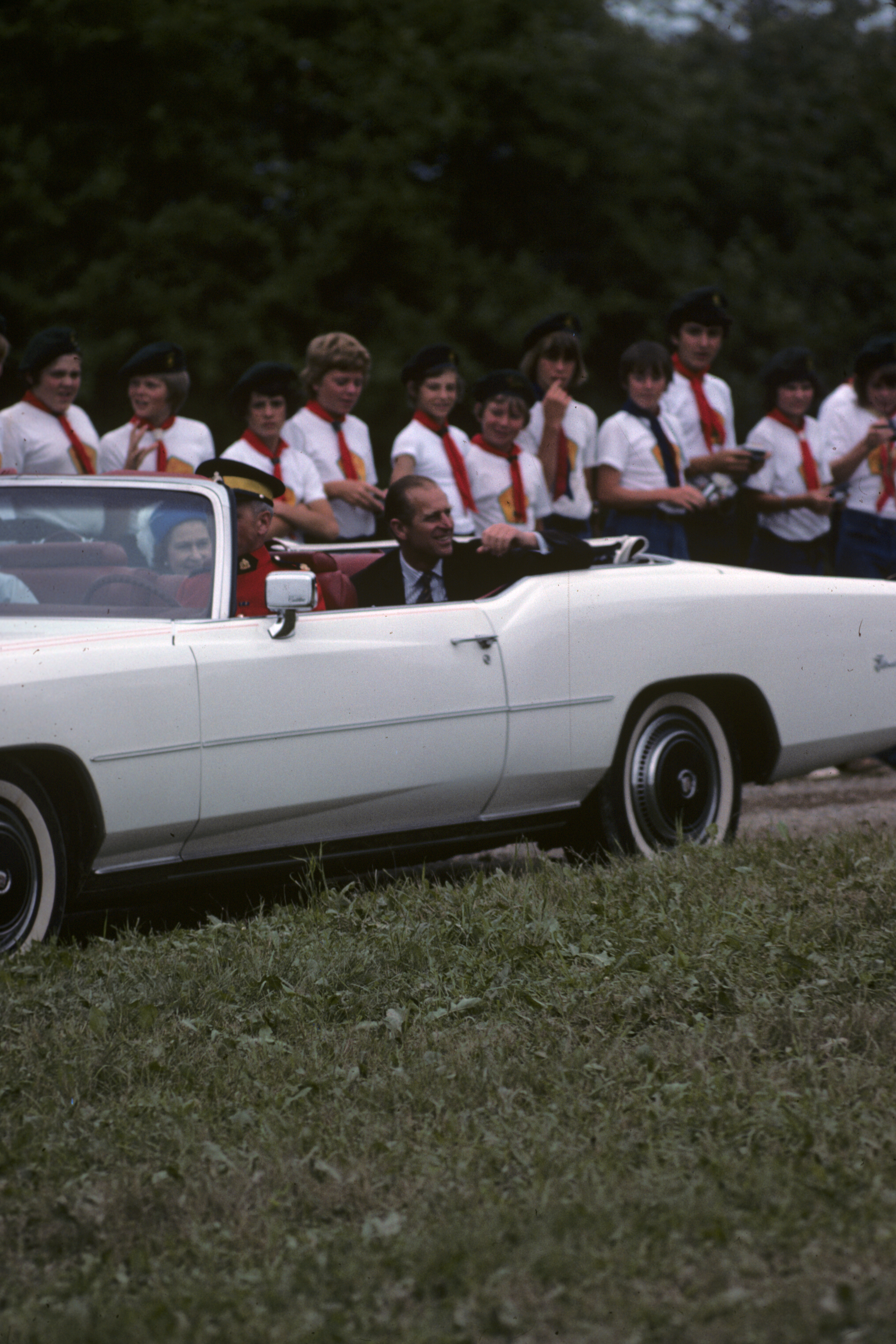 Scouts Canada, Toronto contingent to the 4th Pentathlon Jamboree Fredericton New Brunswick. User:WayneRay and Harry Gatley, Quartermasters for the Jamboree.